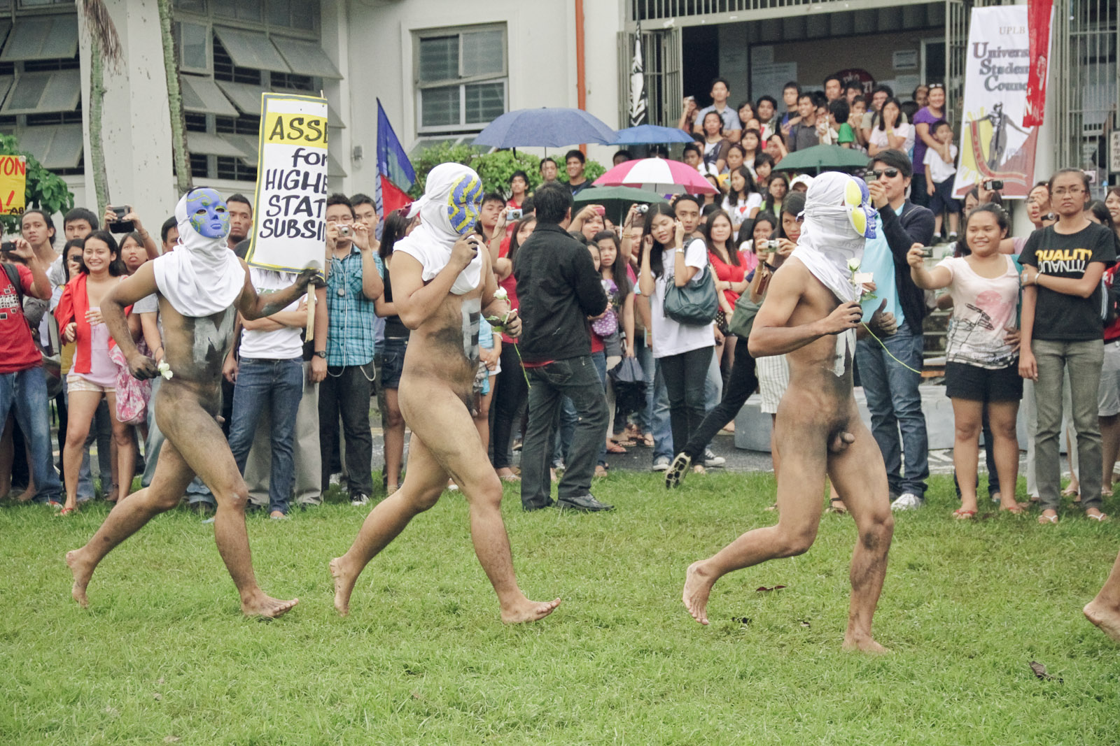 Oblation Run at University of the Philippines Los Banos.